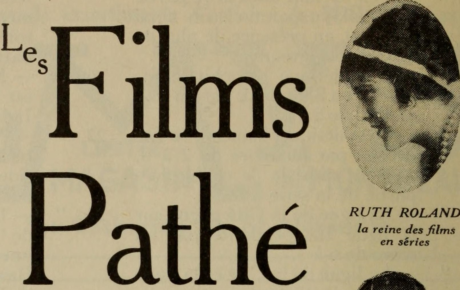 Image from page 33 of "La revue sportive, le National 1920